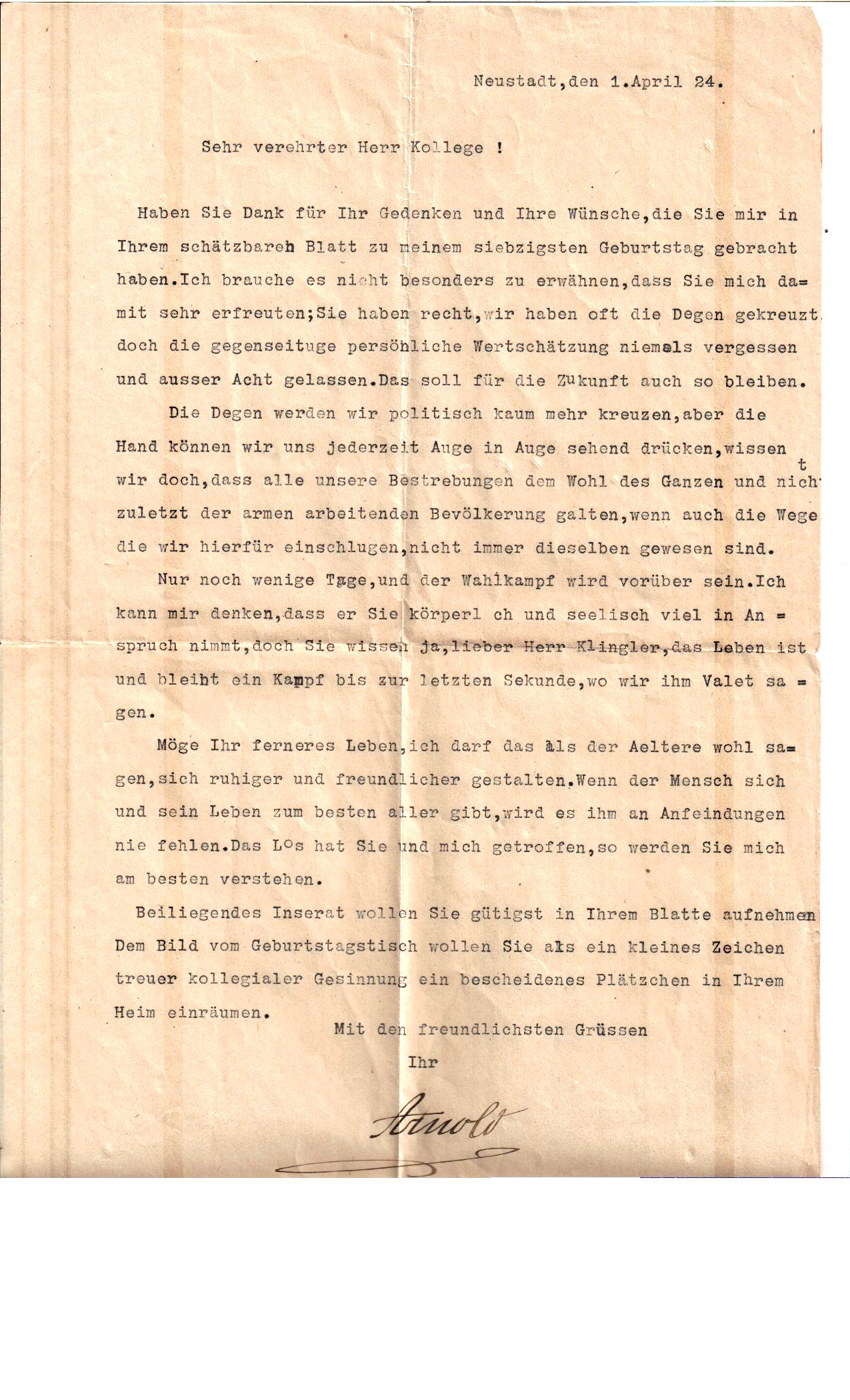 Letter Max Oskar Arnold to Franz Klingler, Bavarian Politician